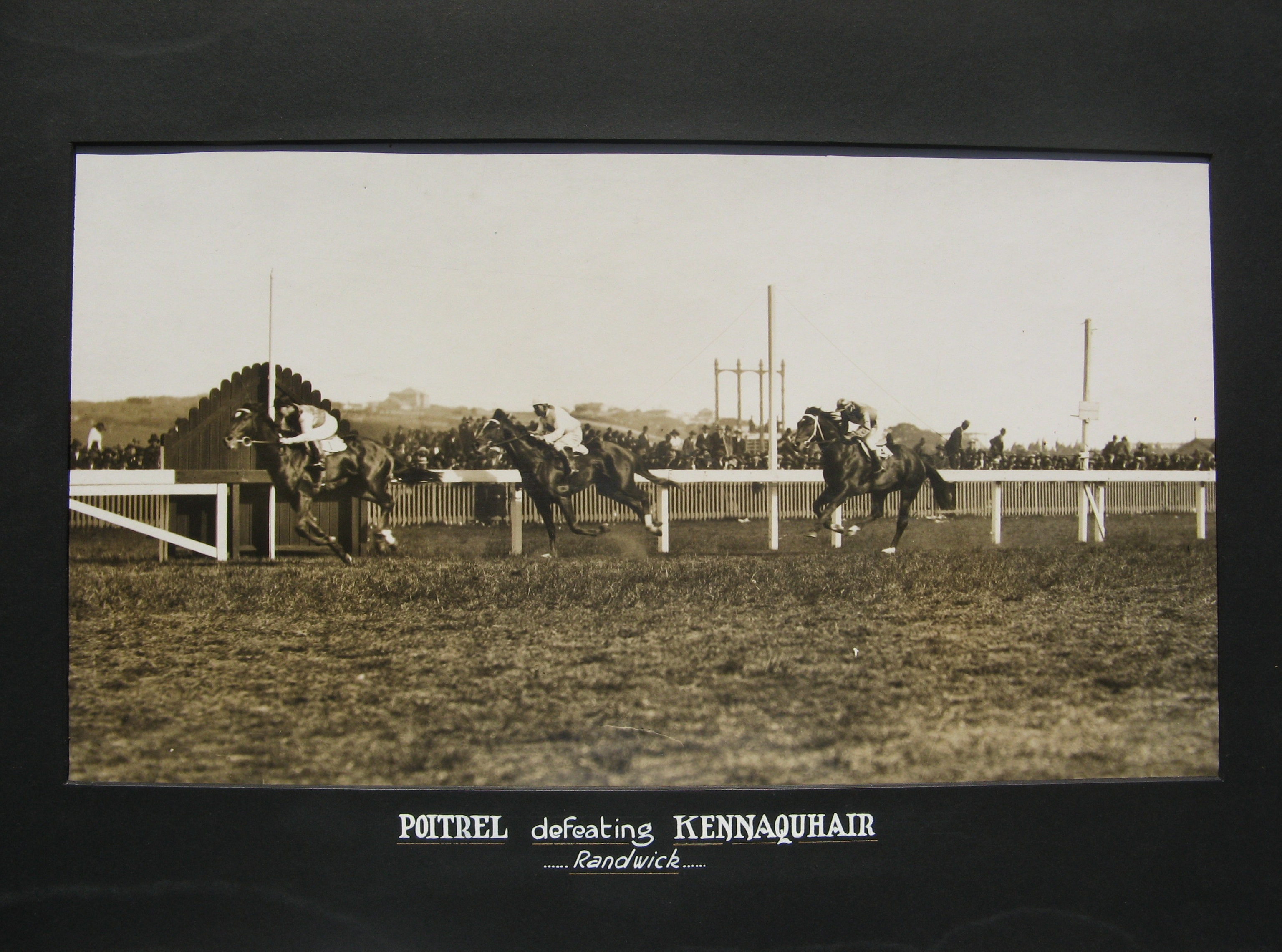 POITREL 1920 AJC RANDWICK PLATE JOCKEY KEN BRACKEN COPIED FROM ORIGINAL PHOTO